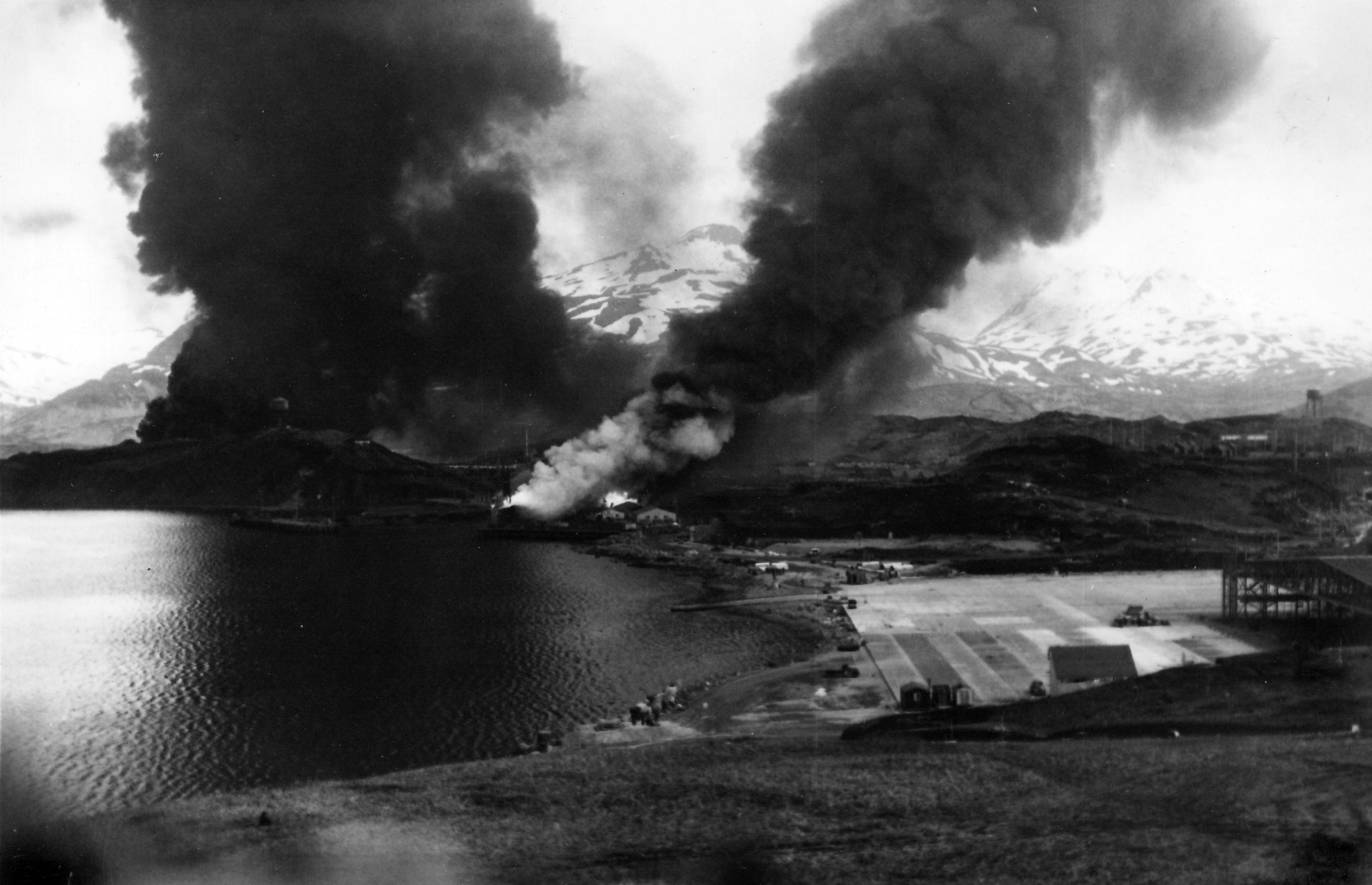 The beached SS Northwestern and oil tanks burning at Dutch Harbor, Alaska (USA), during the Japanese attack on 4 June 1942.